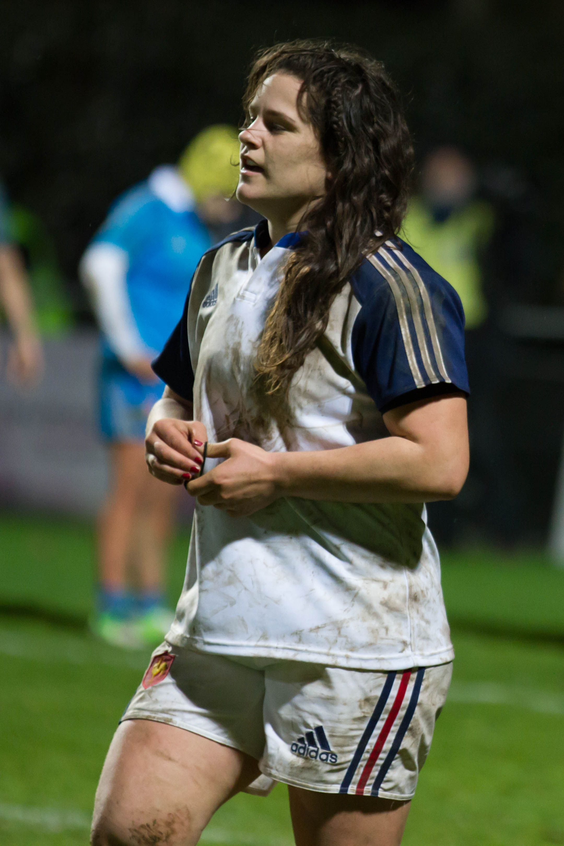 2014 Women's Six Nations Championship — 9 February 2014, Stade Ernest Argeles. Match between: France women's national rugby union team — Italy women's national rugby union team